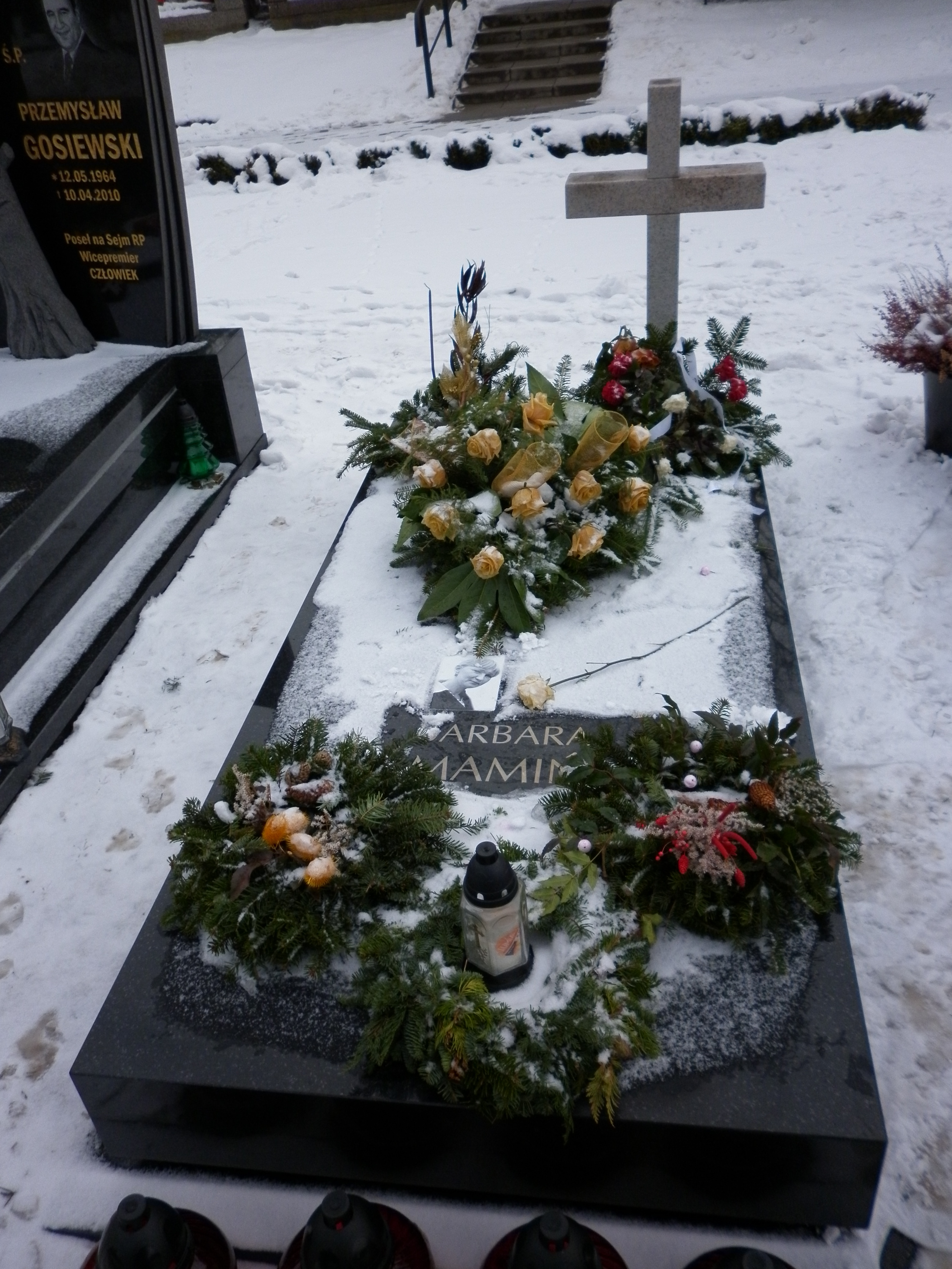 Barbara Mamińska tomb